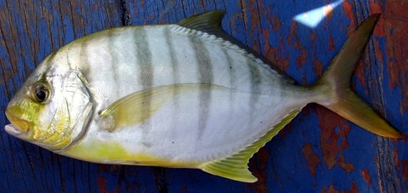 Taken from northern Bali